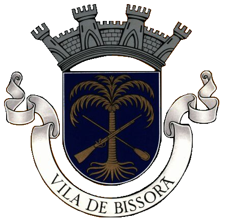 Coat of arms of the city of Bissorã, Guinea-Bissau, during Portuguese rule (may be still in use). Emerson